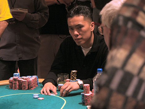 Nam Le at WPT2 2004 World Poker Tour 5 Diamond Bellagio